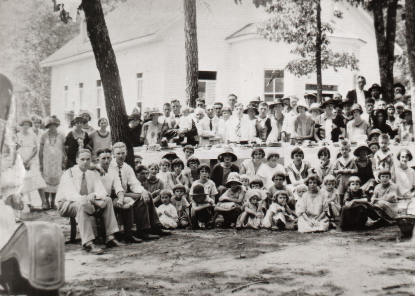 Digital Copy of a portion of the original photograph.